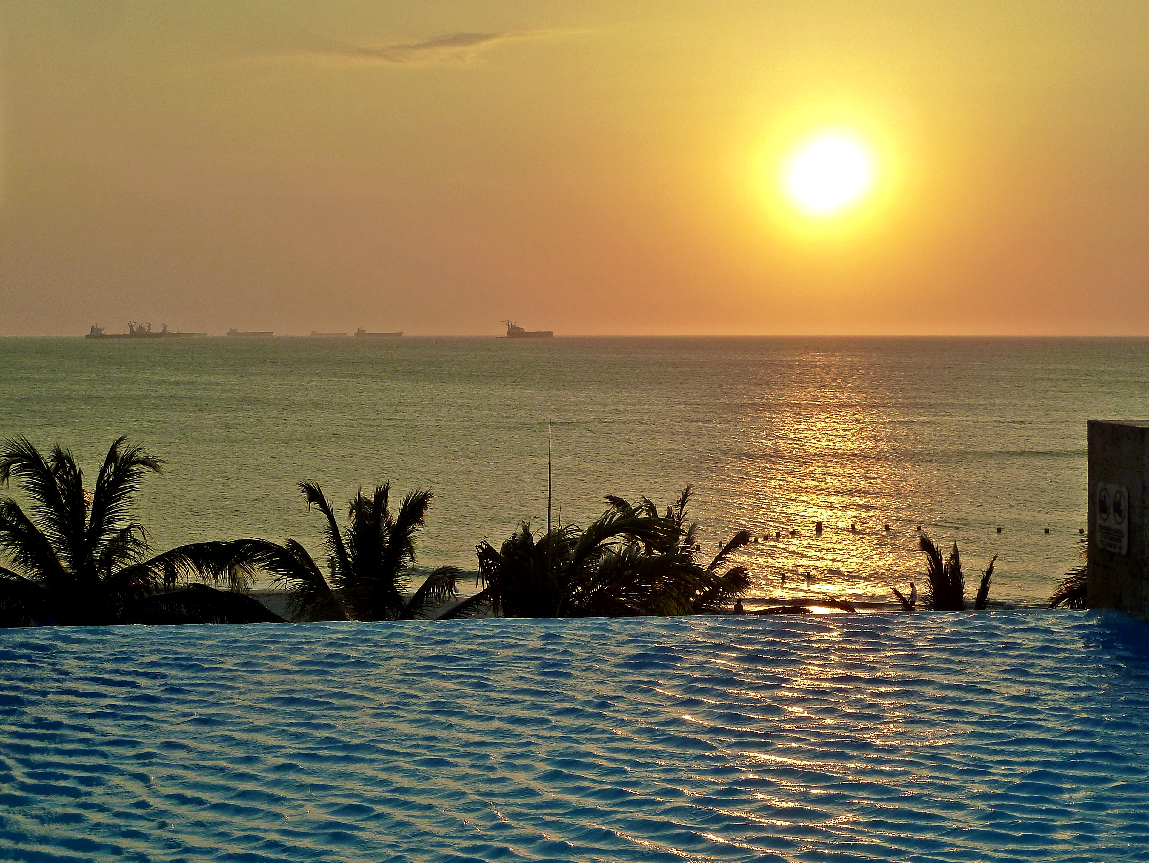 Sunset at Irotama Resort in Santa Marta, Colombia. Ships trading at the Port of Santa Mart are moored off the coast.